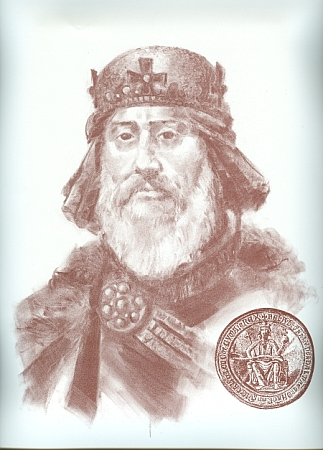 Béla IV of Hungary